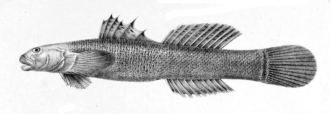 Cotylopus acutipinnis